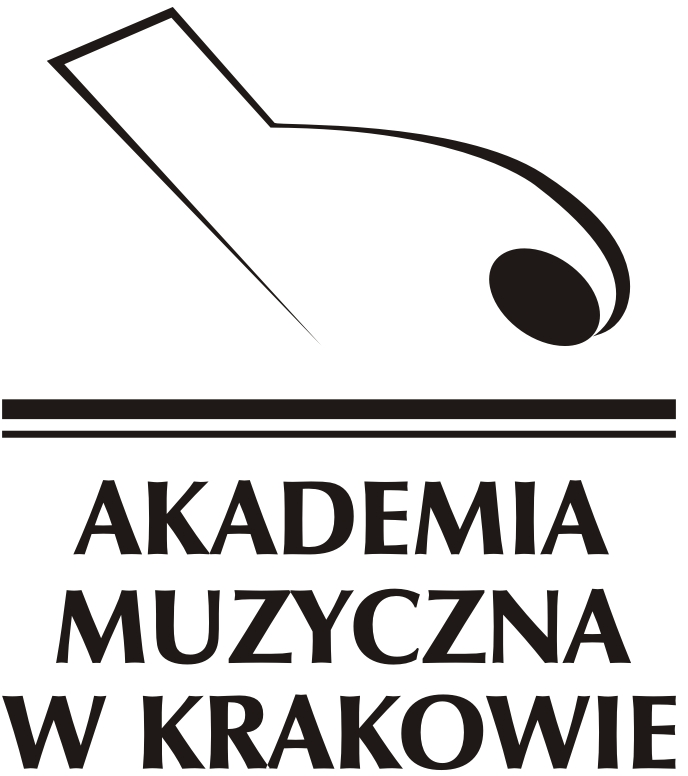 Academy of Music in Kraków logo